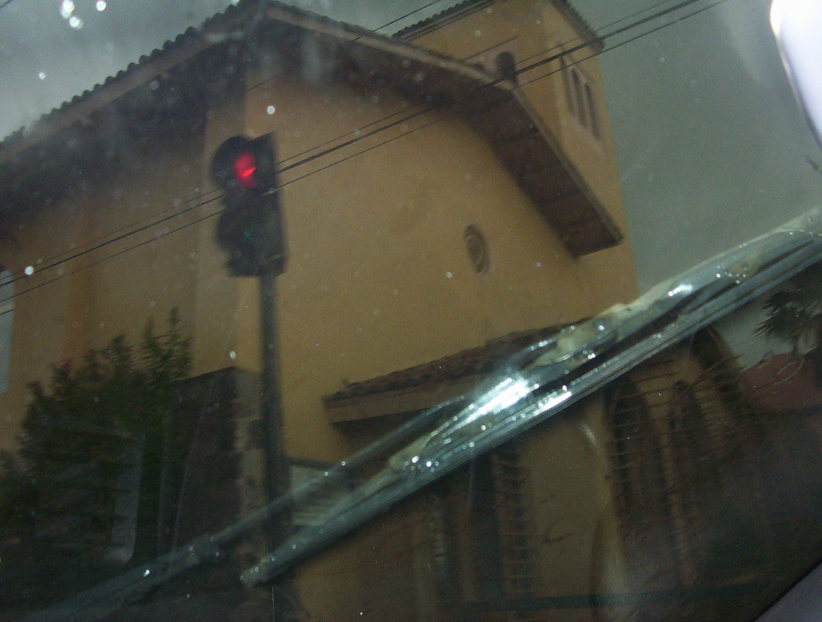 Santa Rosa Church Barnechea.